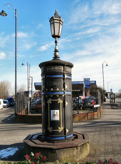 Tram Transformer Pillar. Behind the Audenshaw trough 1705778 on the junction of Manchester Road and Audenshaw road is a transformer pillar built about 1900. It is of cast iron and consists of a circular pillar on a 20th century concrete base topped by a street lamp. The face is split vertically into panels and horizontally into three stages. On the front it bears the coat-of-arms of Manchester City Council and a plate records the maker: the British Electric Transformer Company. Another plate records the restoration by Norweb in 1983. Enriched cast iron panels are on the top stage. The conical top is above a bead and reel band. The structure is topped by a hexagonal lamp on a decorative spindle. The concrete base is now topped by wooden seating. At one time it had three lamps which used to the light the way for trams.